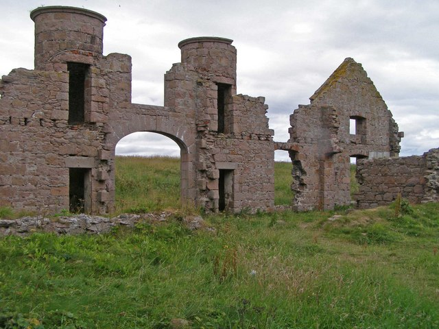 Slains Castle ruins, north range of original west exterior wall Photographer located inside of original castle building. Since the castle is now ruined and without roof, this is classified as an outdoor shot.